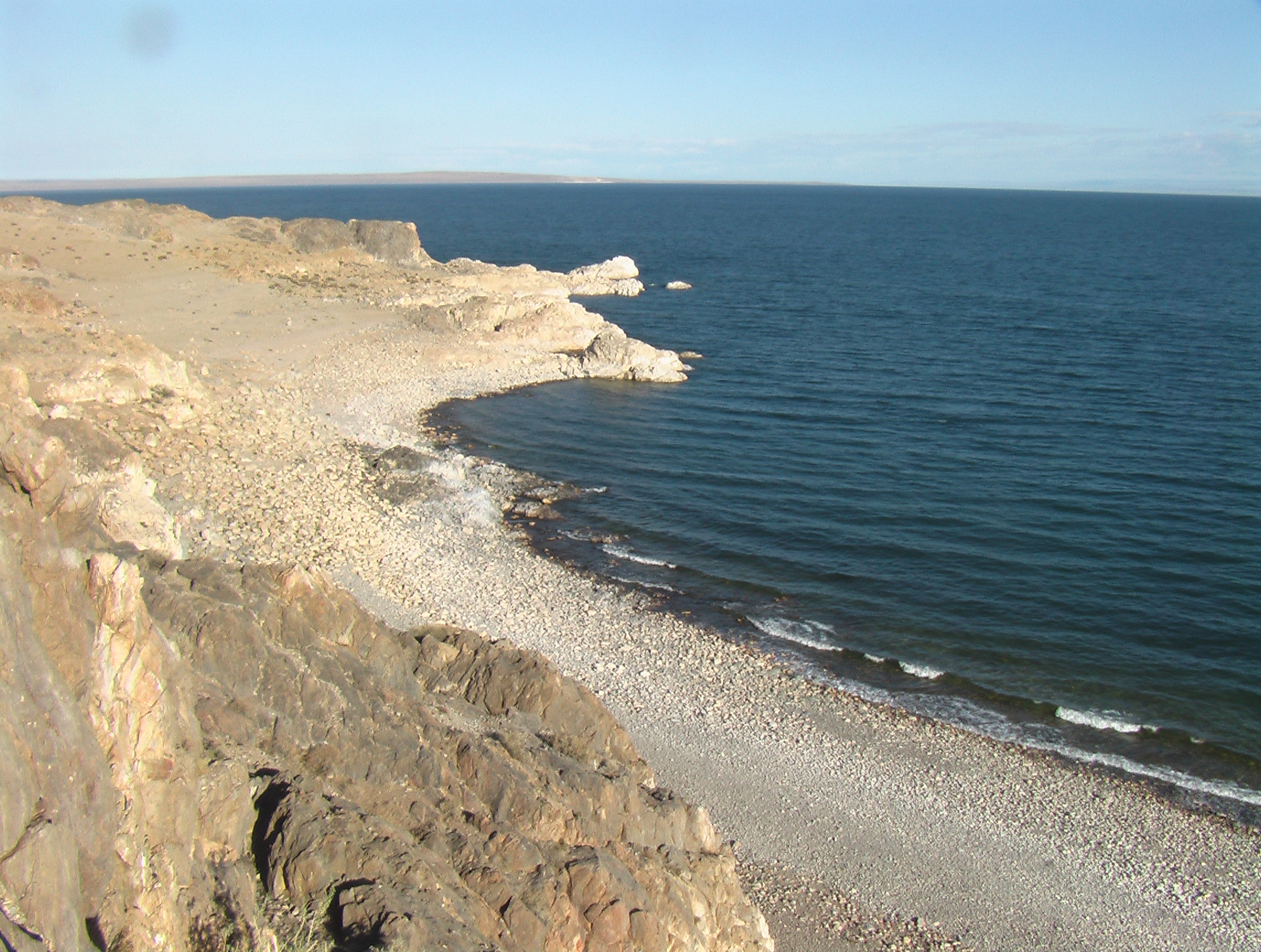 Khyargas-Nuur lake, South-Eastern shore, Uvs aimag, Mongolia